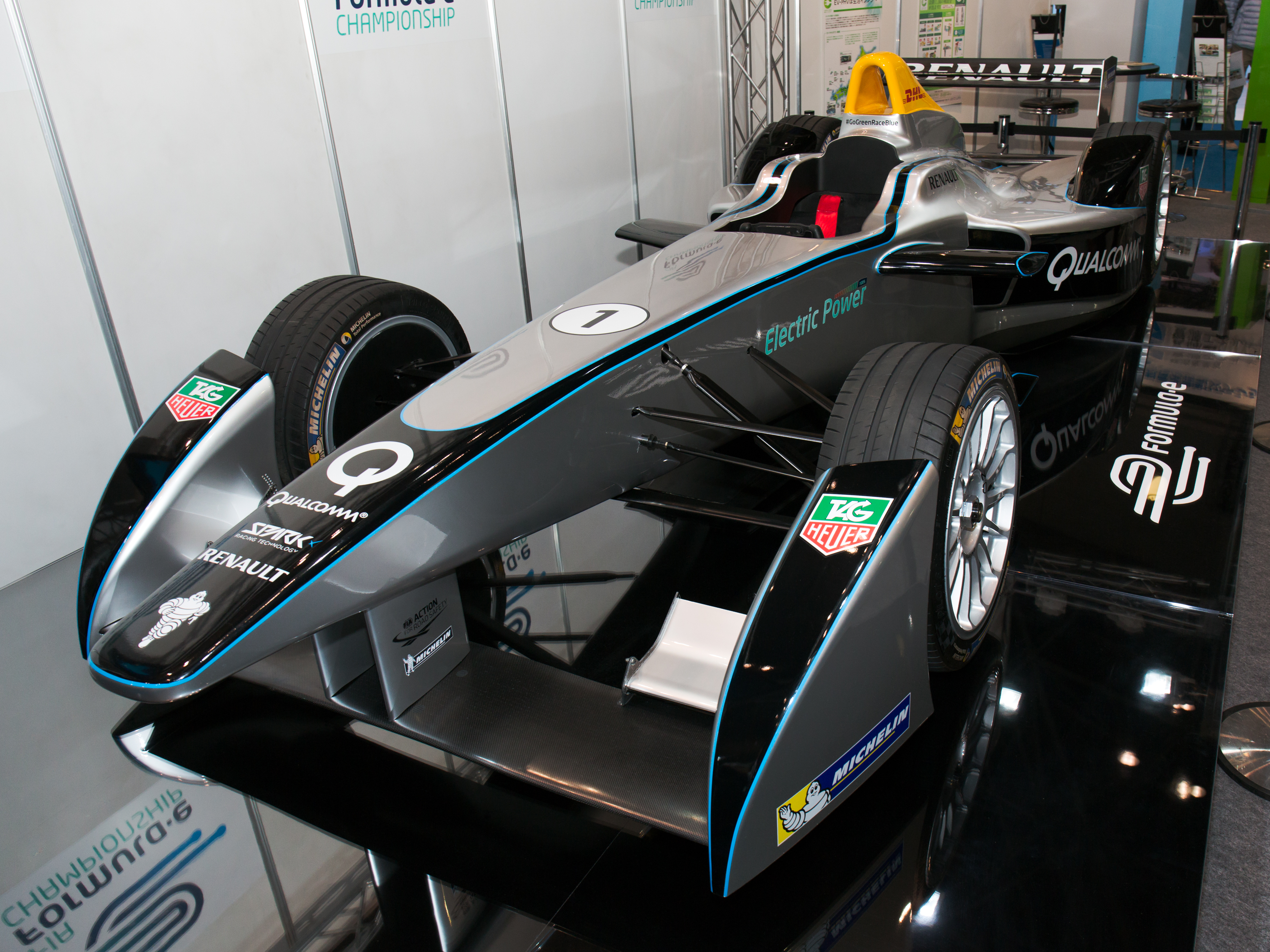 Tokyo Motor Show 2013: Spark-Renault SRT 01E